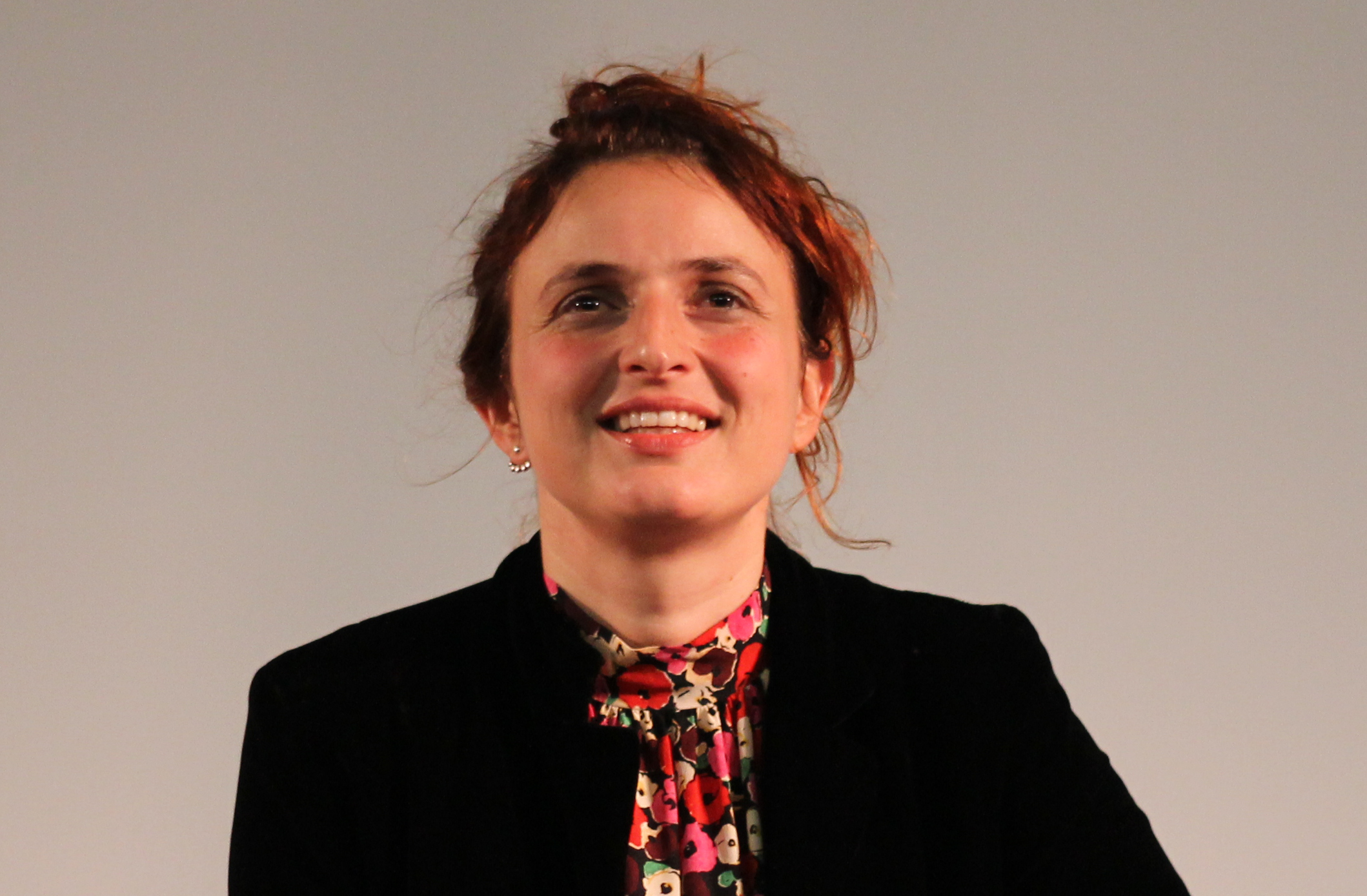 Italian film director, editor and screenwriter Alice Rohrwacher at Lisbon Film Festival 2019